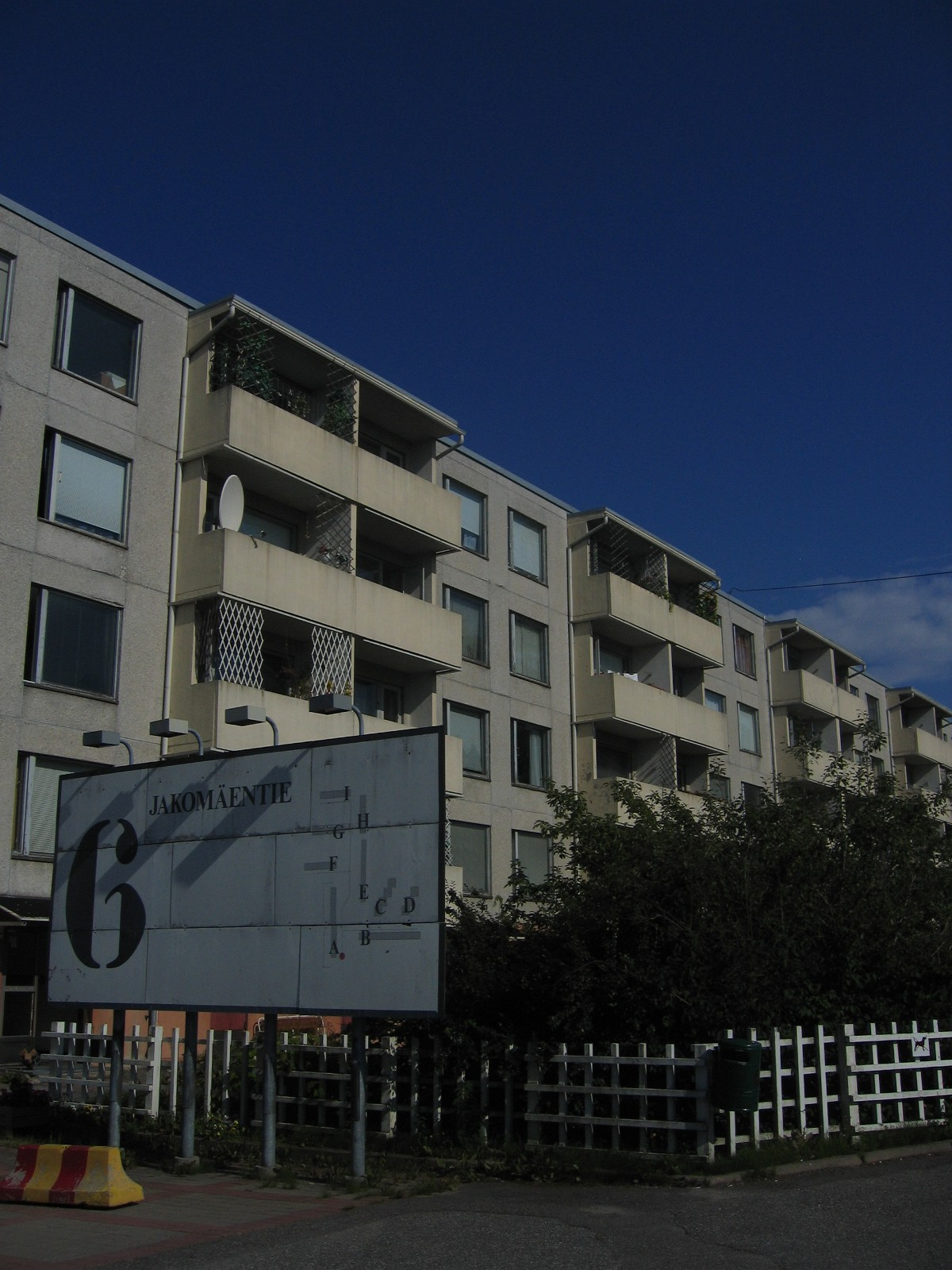 Jakomäki suburb in Helsinki, Finland.